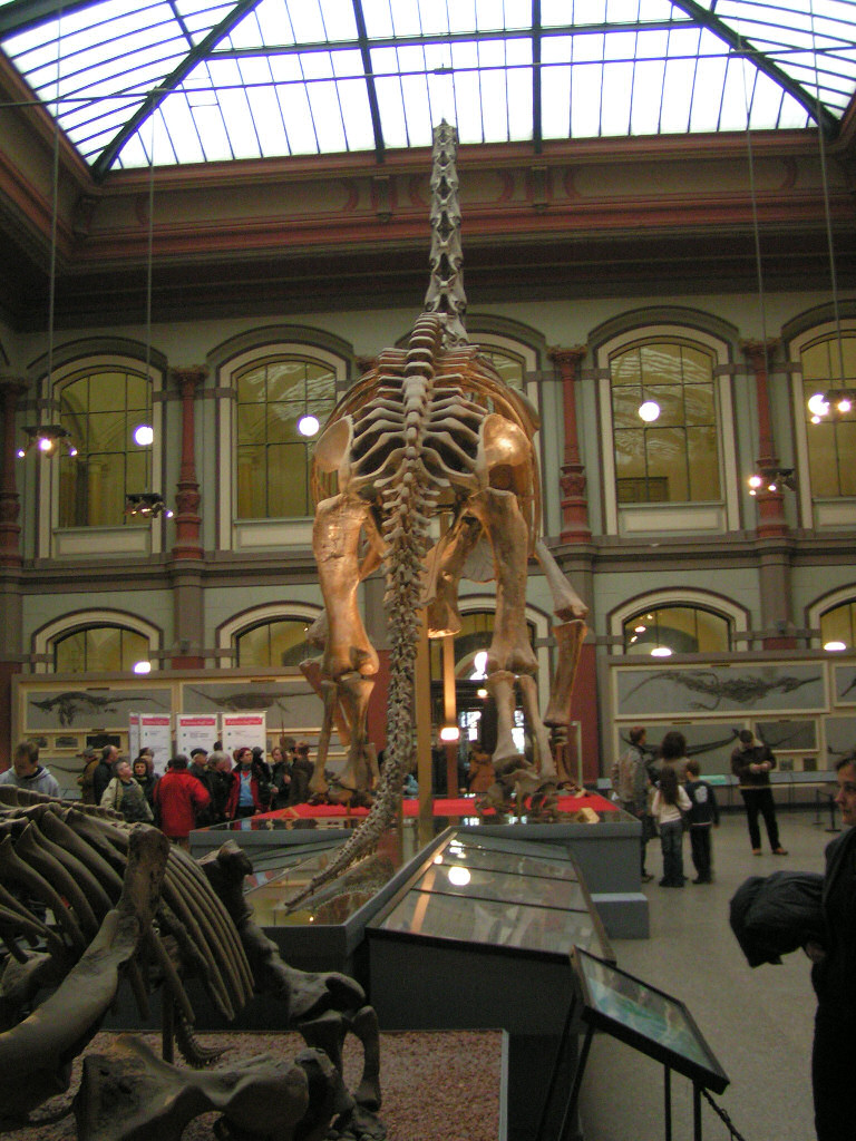 Picture of the out-dated exhibition (at 2005) of Brachiosaurus brancai from behind at the Museum für Naturkunde in Berlin, Germany. Note: This picture shows the out-dated version of the exhibition. The Brachiosaurus brancai at the actual exhibition is shown at Image:Berlin - Museum für Naturkunde - Brachiosaurus brancai.jpg.